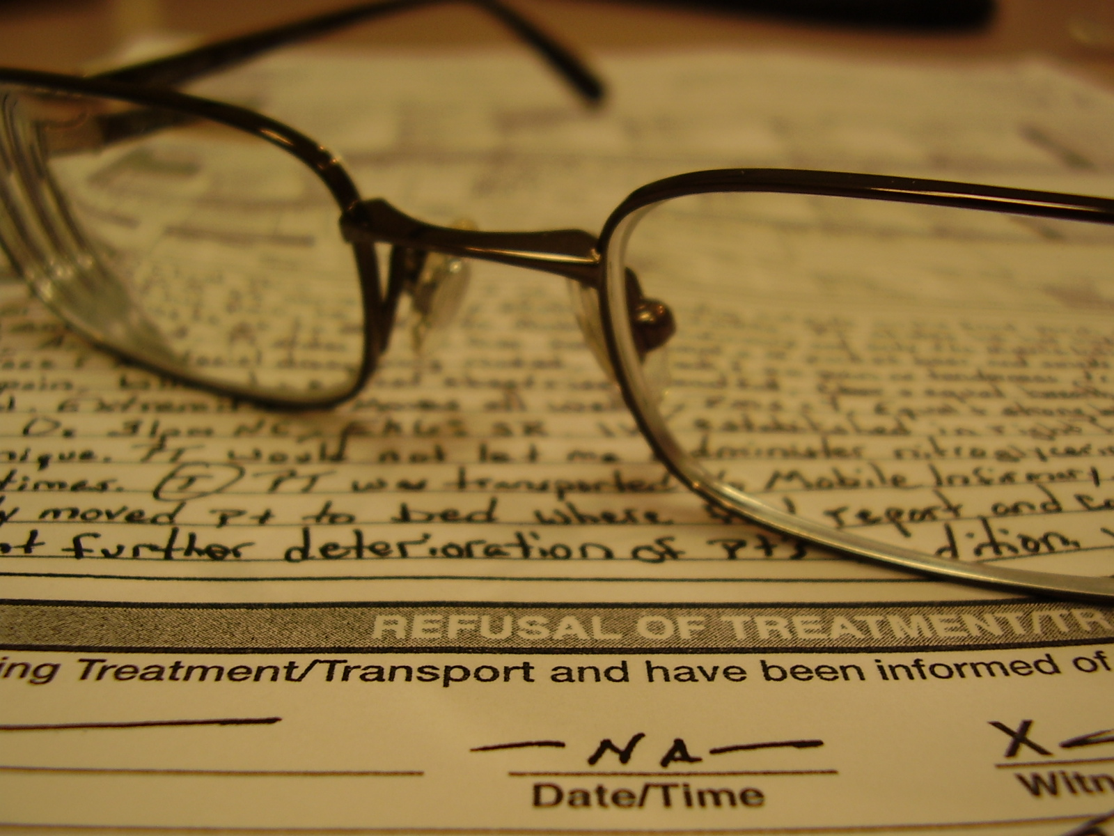 A "refusal of treatment" form from one of our ambulance services.